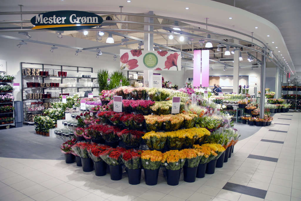 Mester Gronn flower shop in norway